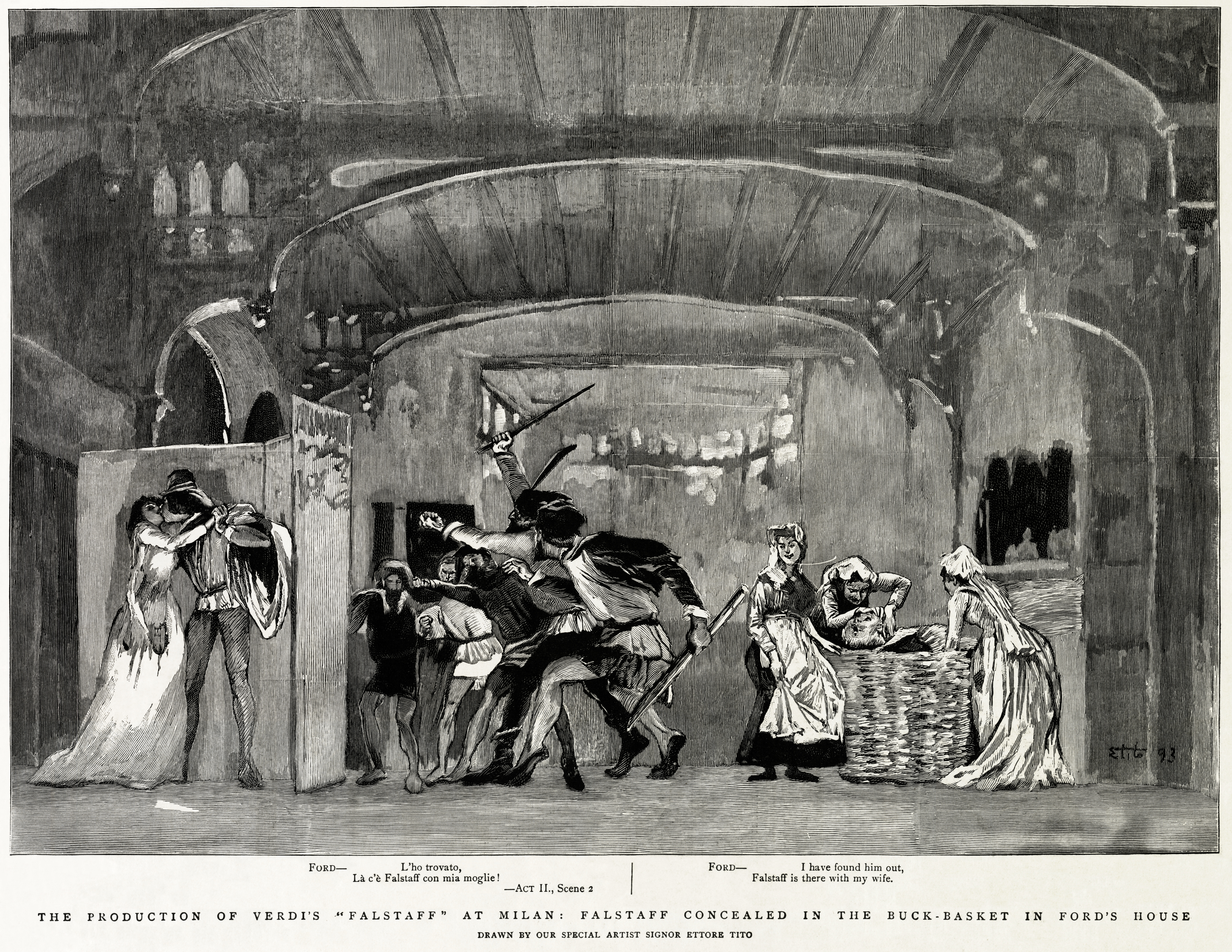 "The Production of Verdi's Falstaff at Milan: Falstaff Concealed in the Buck-Basket in Ford's House" from The Graphic of February 18, 1893 as performed in the première production. (The première was on 9 February 1893, but The Graphic is a weekly, and it takes more than two days to get illustrations from Italy to England and prepare engravings.) This engraving shows the climax of the chaotic scene near the end of Act II of Giuseppe Verdi's Falstaff: The "merry wives of Widsor", who have discovered Falstaff sent two of them the same scandalous love note, differing only in the name it is addressed to, have decided to punish him. Unfortunately, the fake arrival of Alice Ford's husband ends up replaced by the real arrival. While he and the servants search the house top to bottom, the women stifle Falstaff in a basket of laundry. Meanwhile, Nannetta Ford, Alice's daughter, and her suitor, Fenton, arrive during a moment of calm, and slip behind a screen for some kissing and other such romance. Ford, returning on the search for his wife, hears the noises behind the screen, and presumes his wife is there - but it turns out to be Fenton with his daughter - which he sees as almost as bad. Nonetheless, the act ends with Ford and Alice reconciled as she reveals her plan to him, and invites him to watch Falstaff thrown into the river with the laundry. The Nannetta-Fenton plot, however, will have to wait until the next act to be resolved.